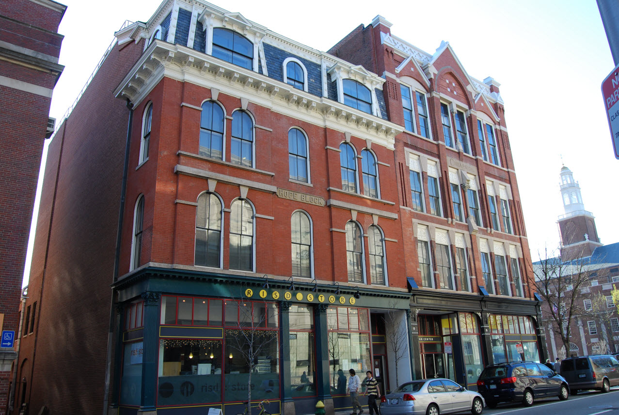 Hope Block (left) and Cheapside Block (right), North Main Street, Providence, Rhode Island. Listed on the National Register of Historic Places